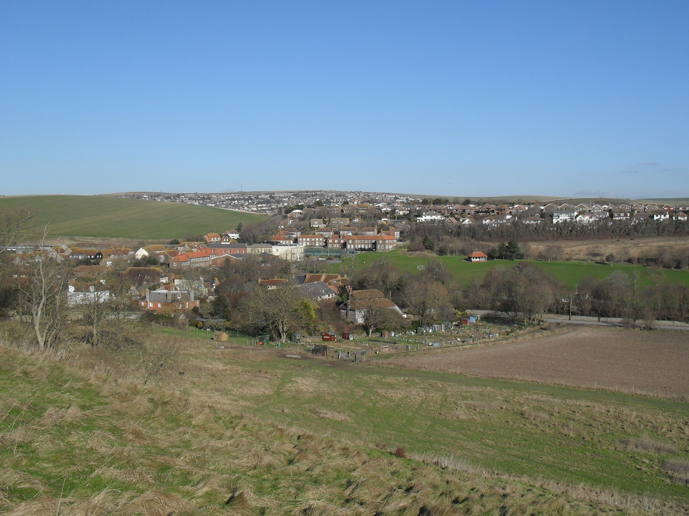 The village of Ovingdean—part of the city of Brighton and Hove in East Sussex, England—seen from Cattle Hill to the southwest. The Woodingdean housing estate is in the background. Much of Ovingdean is a conservation area.